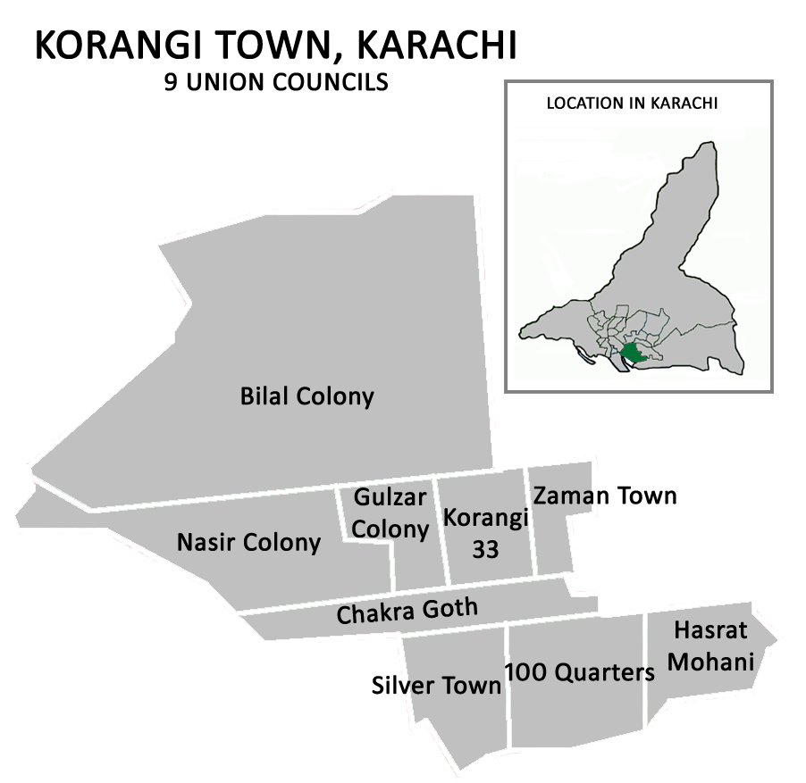 Union councils of Korangi Town, Karachi.